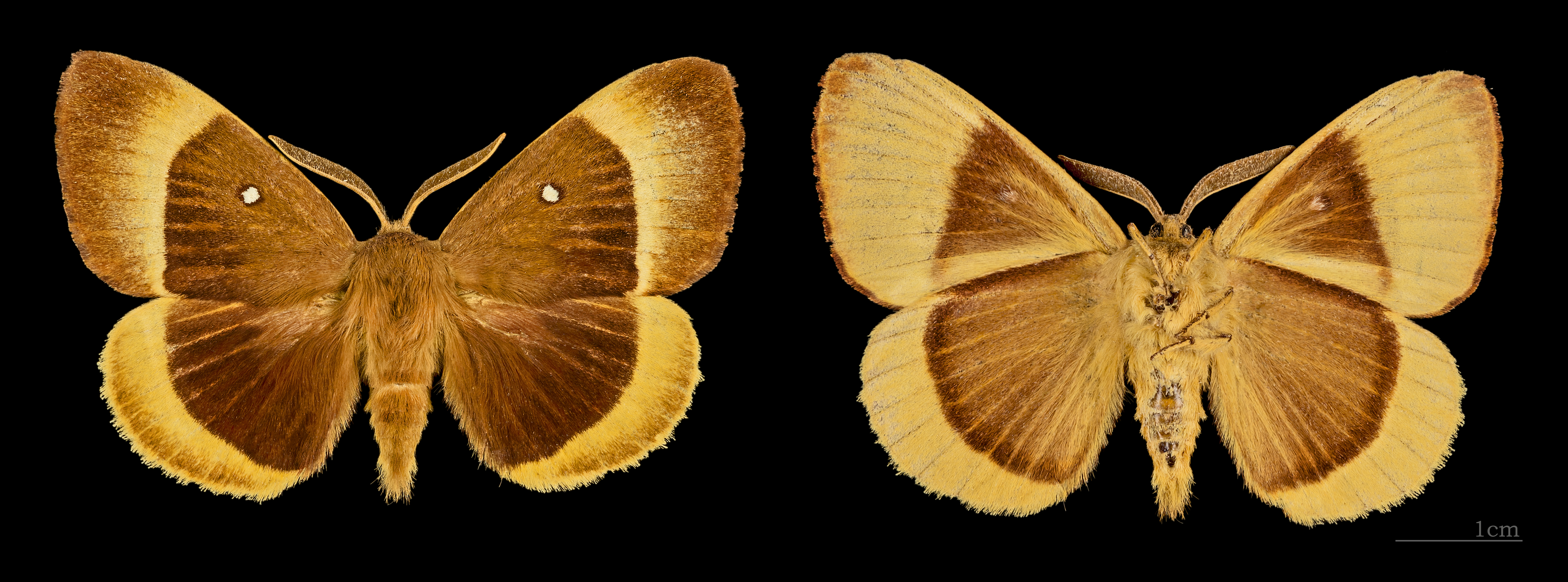 Oak Eggar - Two views of same specimen